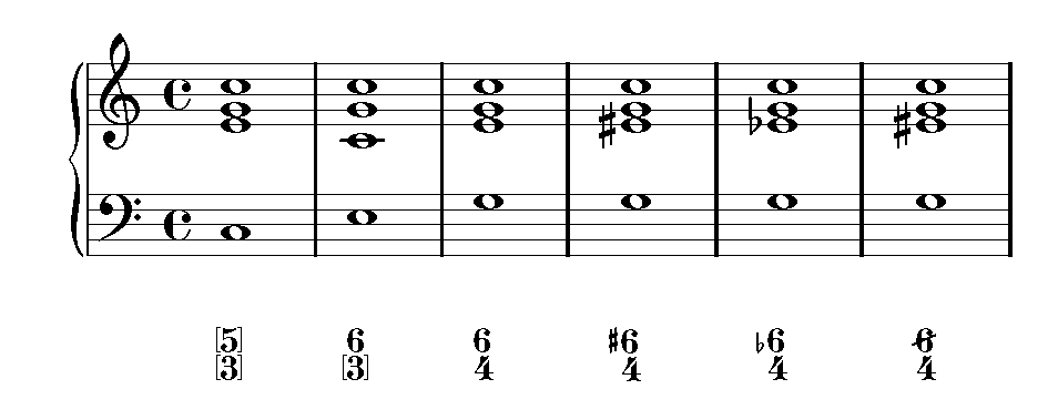 Figured Bass